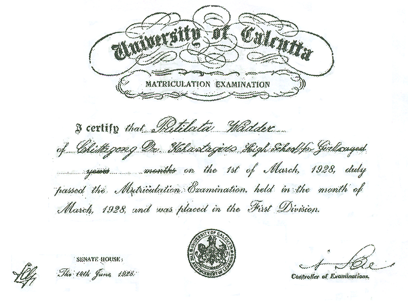 Scanned image of Pritilata's matriculation certificate from Dr. Khastagir Girl's high school